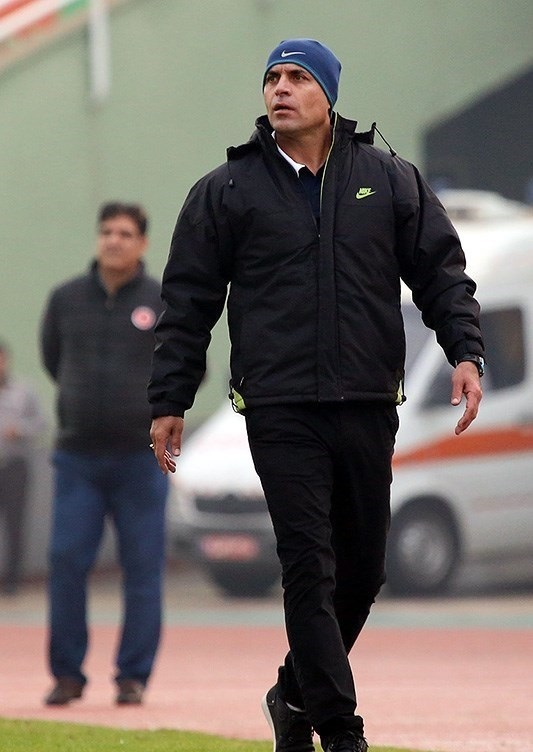 Abdollah Veisi